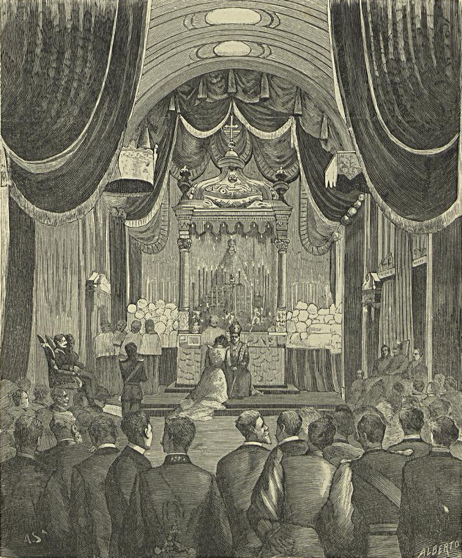 Monsignor Domenico Jacobini delivers the Golden Rose to Amélie of Orléans, Queen of Portugal, in the Chapel of Necessidades Palace (4 July 1892).